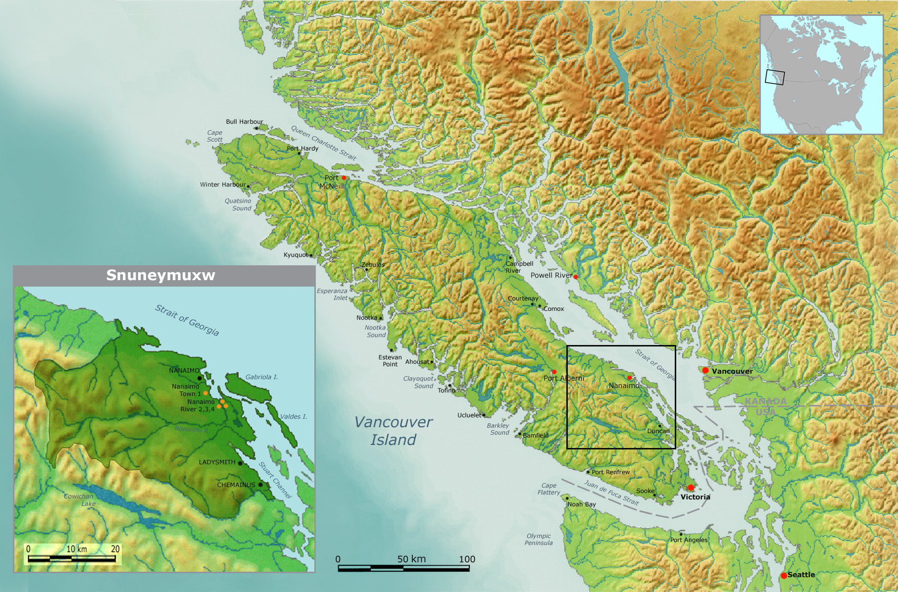 Map of traditional Snuneymuxw tribal territory.